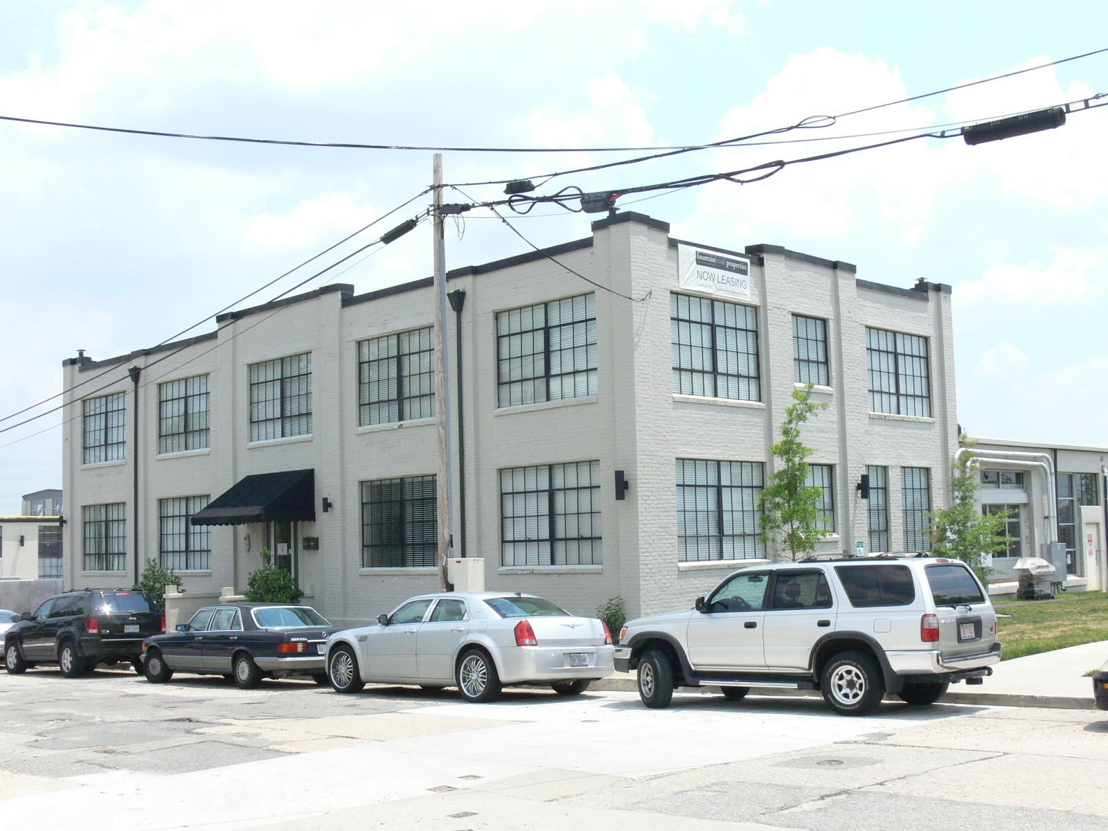 The former Southern Stove works in the Manchester area of Richmond, Virginia; on the National Register of Historic Places